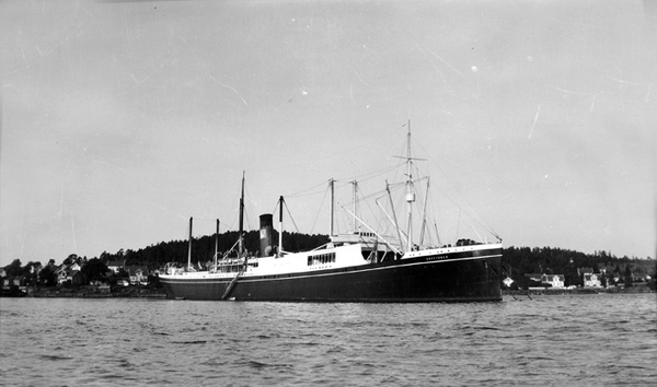 Whaling factory "Skytteren", ex. "Suevic" (1901)